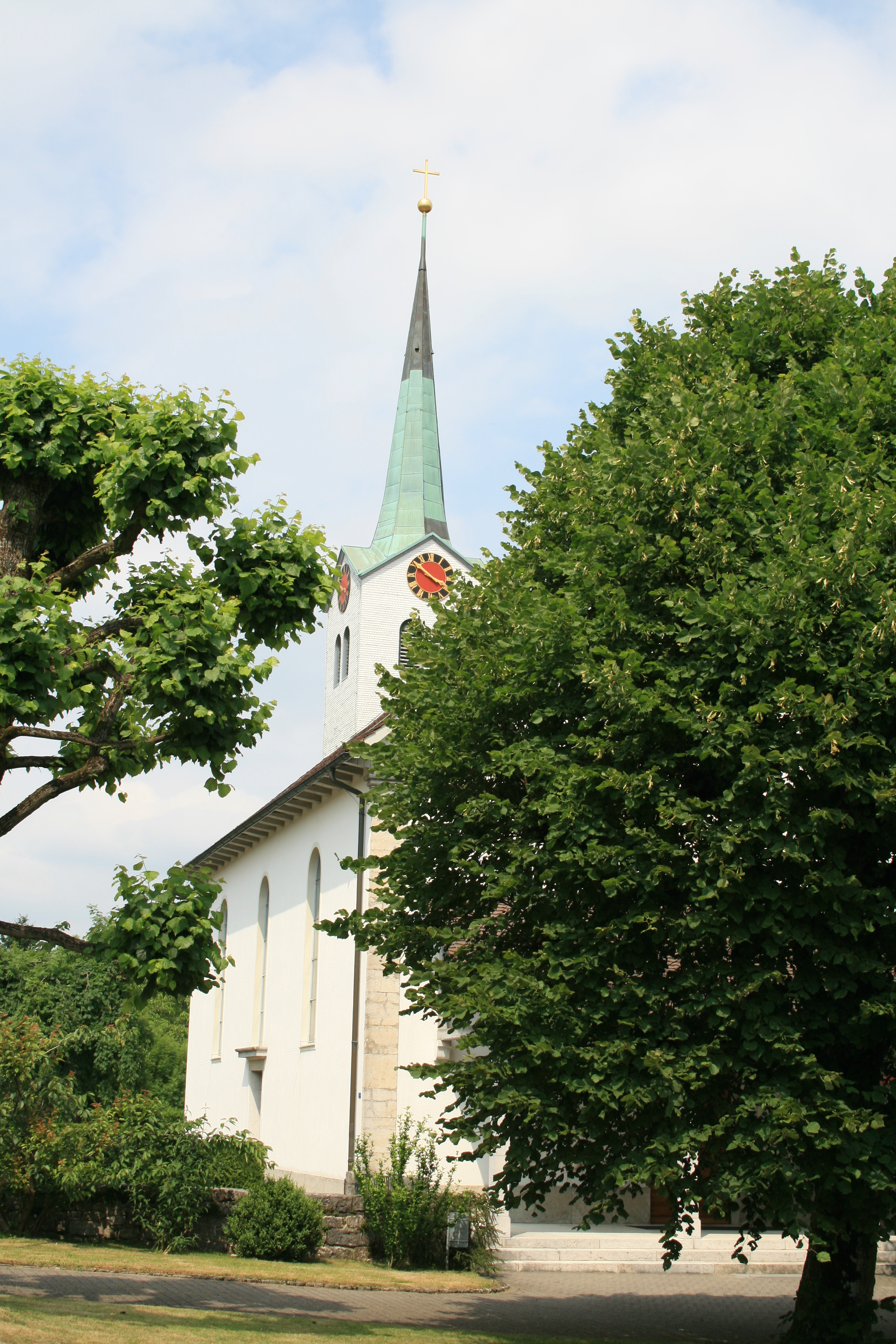 Rom.-cath. Church Walterswil SO, Switzerland